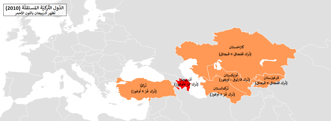 Map of Independent Turkic States in Central Asia, Eurasia and Asia Minor as of 2010. This map shows the location of Azerbaijan (shown in red color)